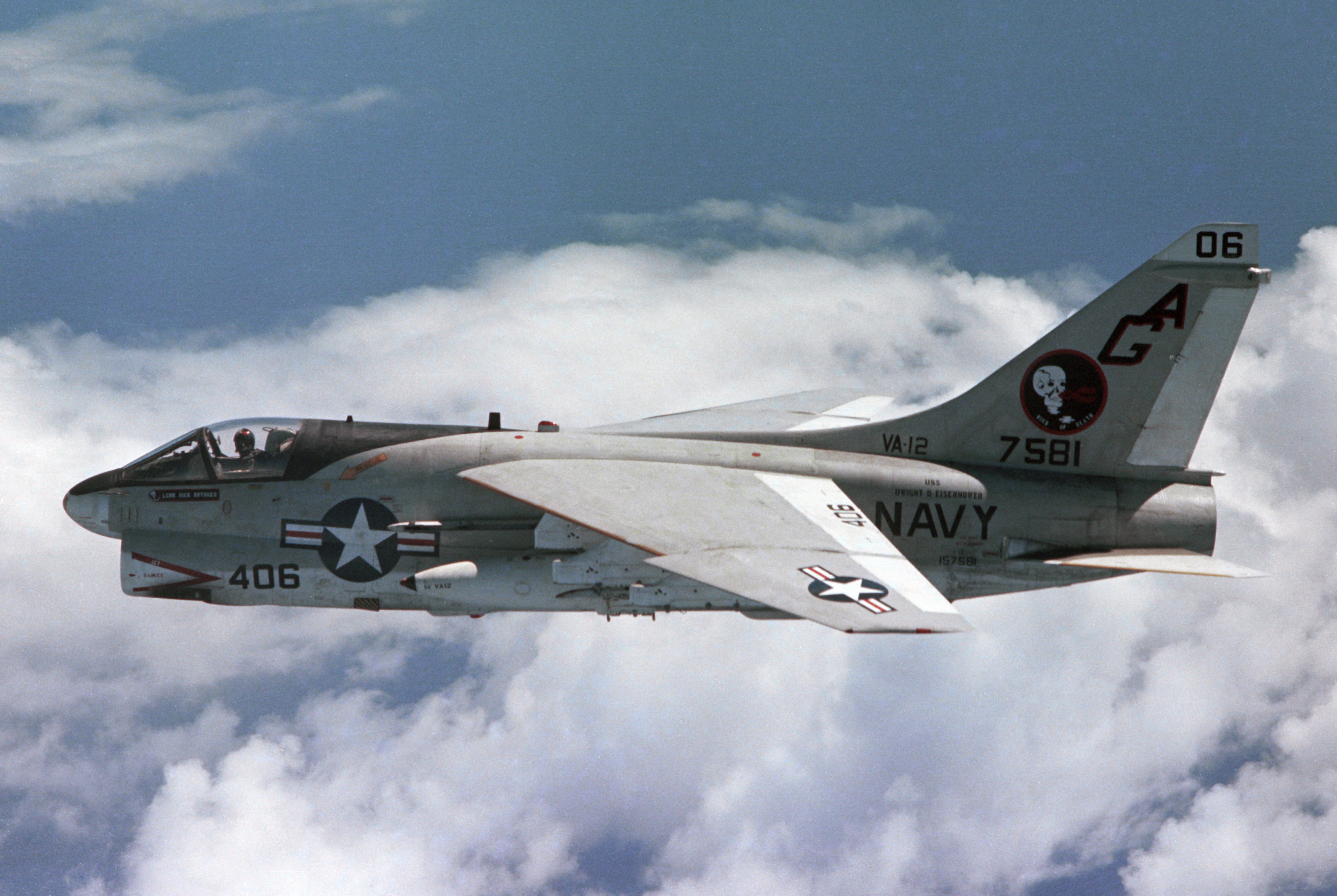 A U.S. Navy LTV A-7E Corsair II aircraft from Attack Squadron 12 (VA-12) Flying Ubangis.